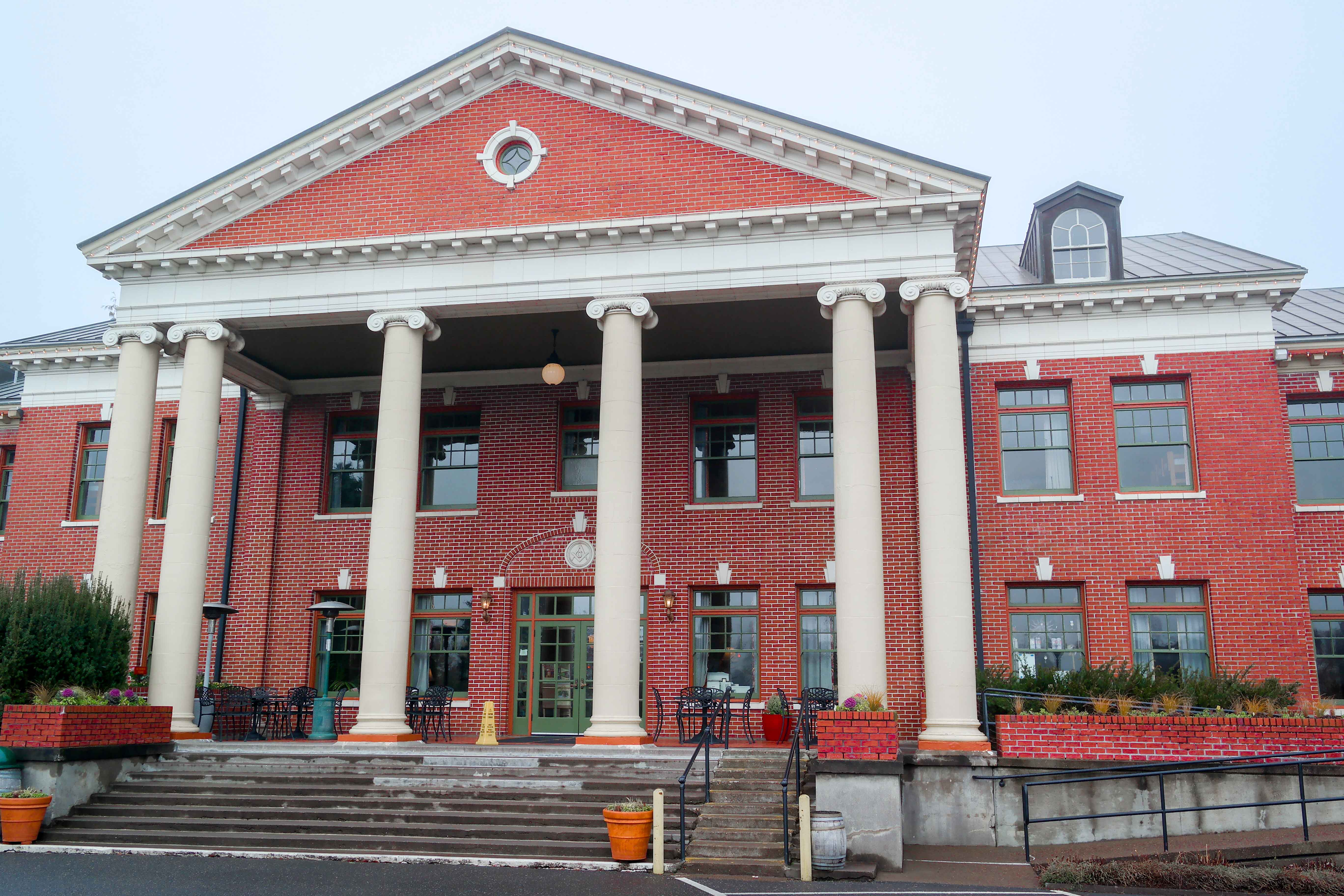 A view of McMenamins Grand Lodge in Forest Grove, Oregon